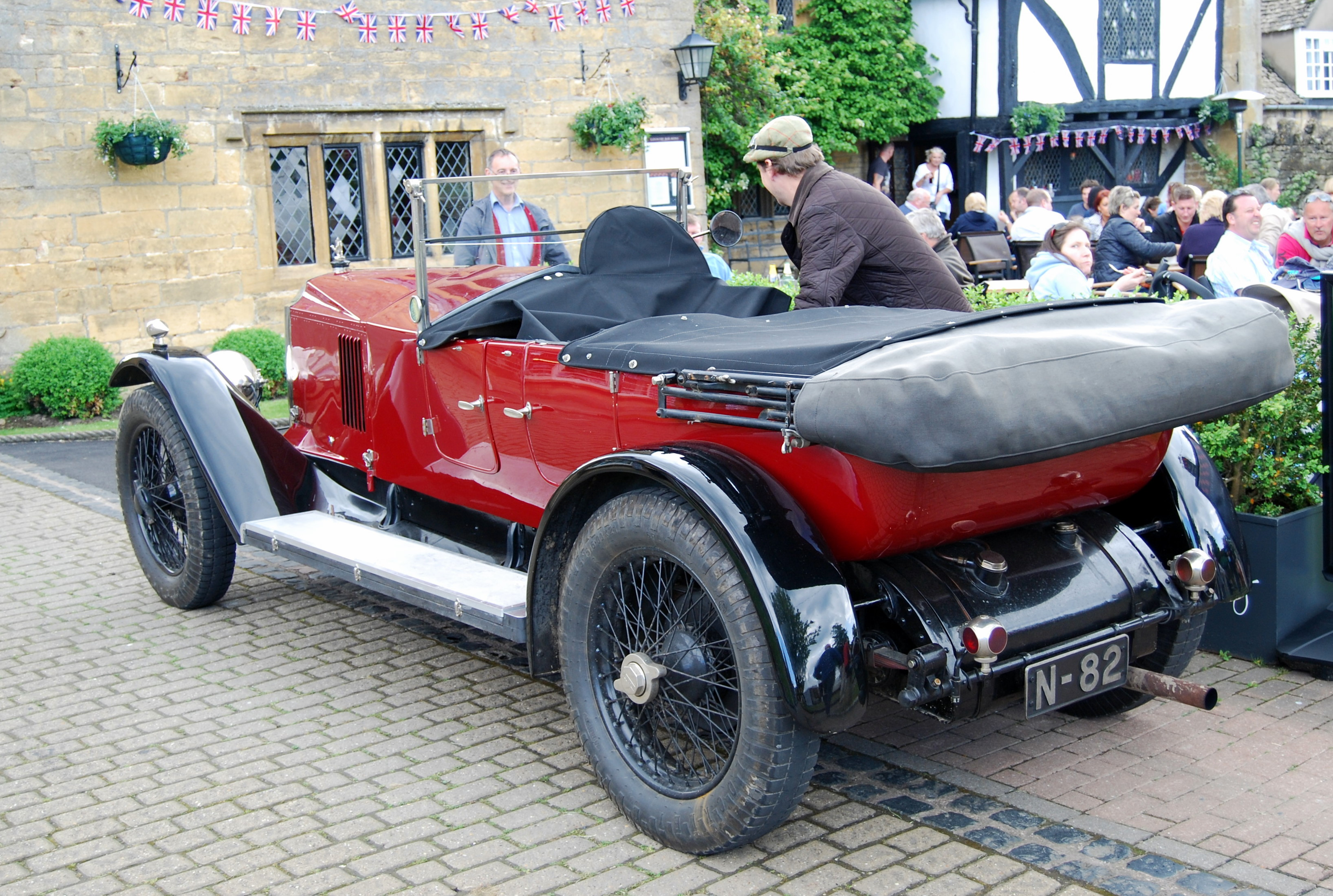 (DVLA) manufactured 1924 4224 cc probably 30-98 OE with Velox body Photo ref; DSC0466-2012 This photo was taken on June 4, 2012 in Broadway, England, GB, using a Nikon D40X.